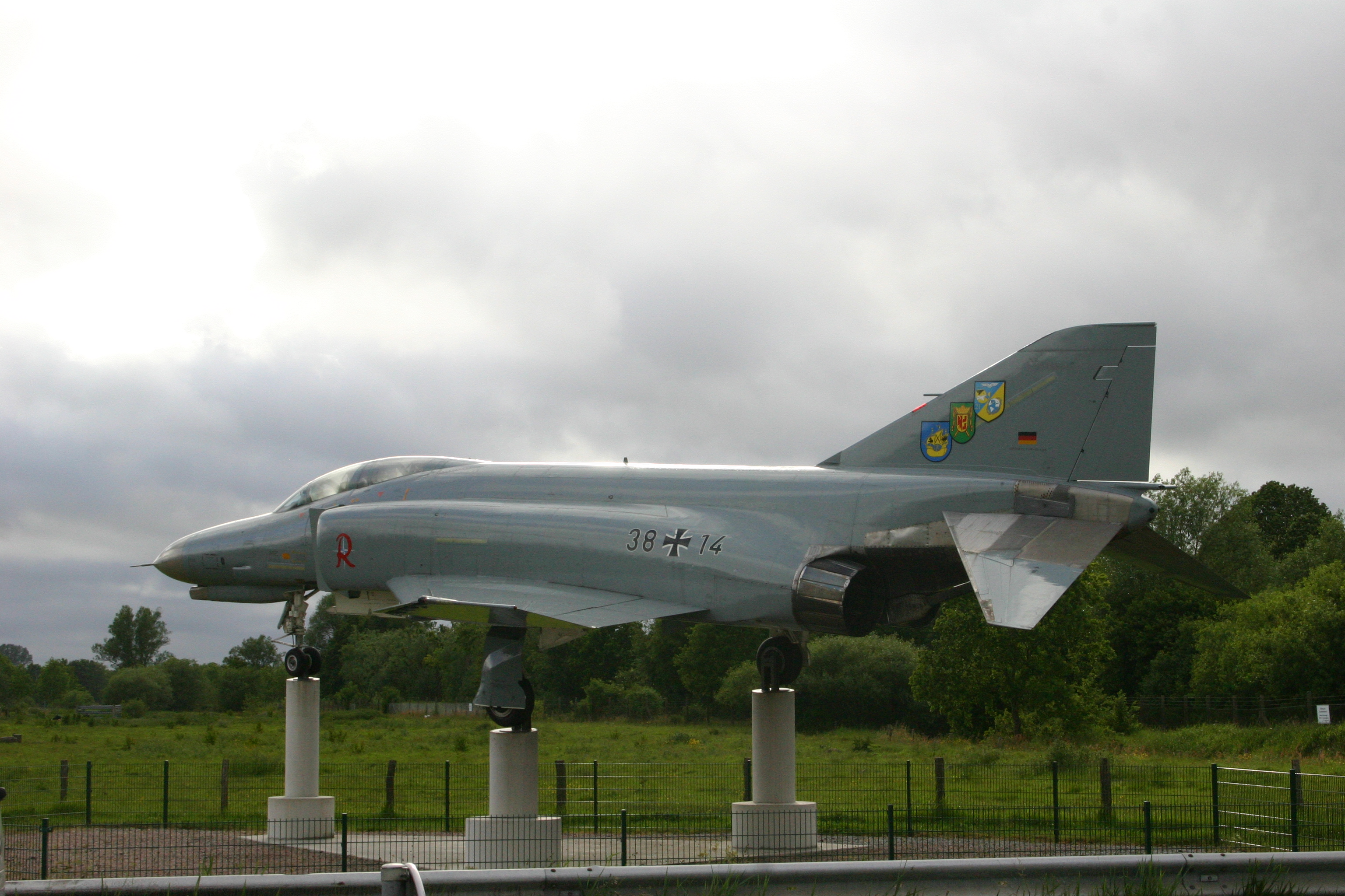 A "Phantom" at the southern entrance to Wittmund, near the Luftwaffe barracks. The town in East Frisia is home to the 71st fighter wing, named "Richthofen wing" after Manfred Freiherr von Richthofen, the "red baron".